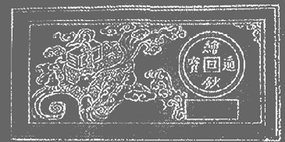 fsfsfsf